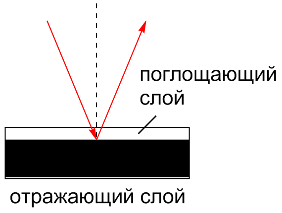 Reflectance ir spectroscopy